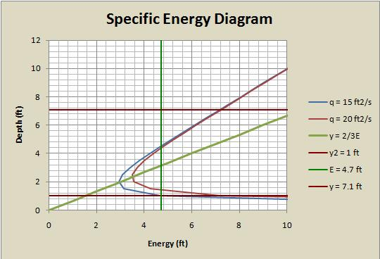 E-y diagram choke condition